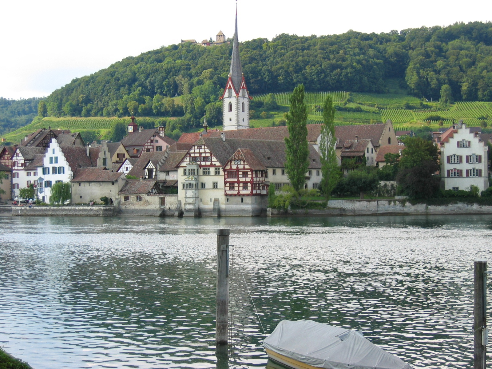 Description: Stein am Rhein with the castle Hohenklingen in the background Author: C. Russler Date: August 2003 Comment: uploadet from the German Wikipedia